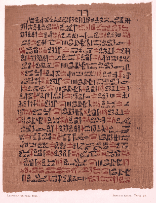 Ebers Papyrus from National Library of Medicine, Found in Egypt in the 1870s, the Ebers Papyrus contains prescriptions written in hieroglyphics for over seven hundred remedies. This prescription for an asthma remedy is to be prepared as a mixture of herbs heated on a brick so that the sufferer could inhale their fumes.